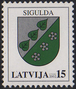 Latvian postage stamp definitive depicting the Sigulda town coat of arms.